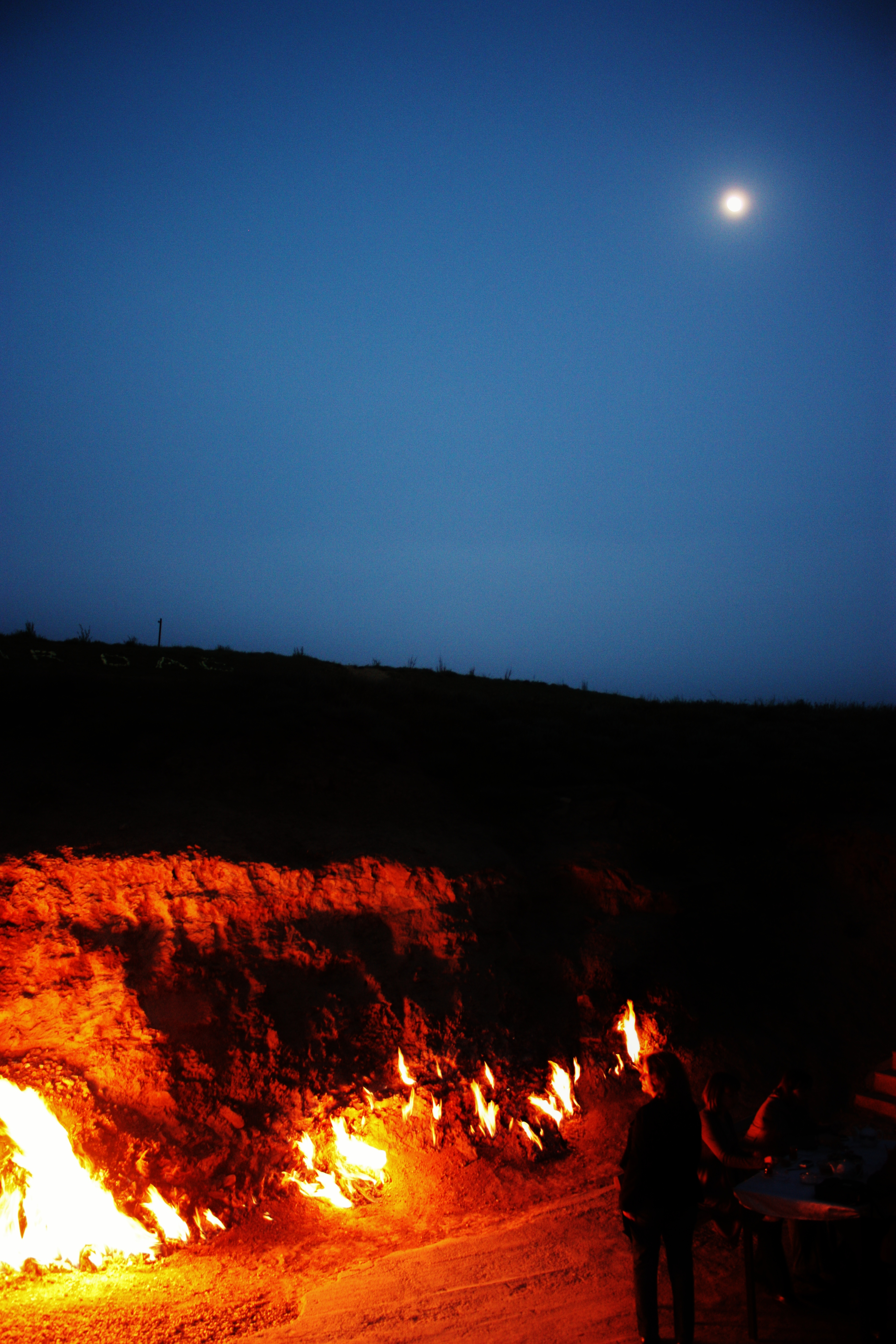 Yanar Dagh and the moon.